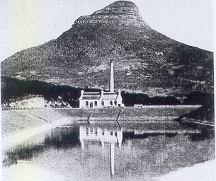 The Molteno Dam on the slopes of Table Mountain. Graaff Electric Works and Lions Head can be seen in the background This media shows a South African Protected Site with SAHRA file reference 9/2/018/0014.